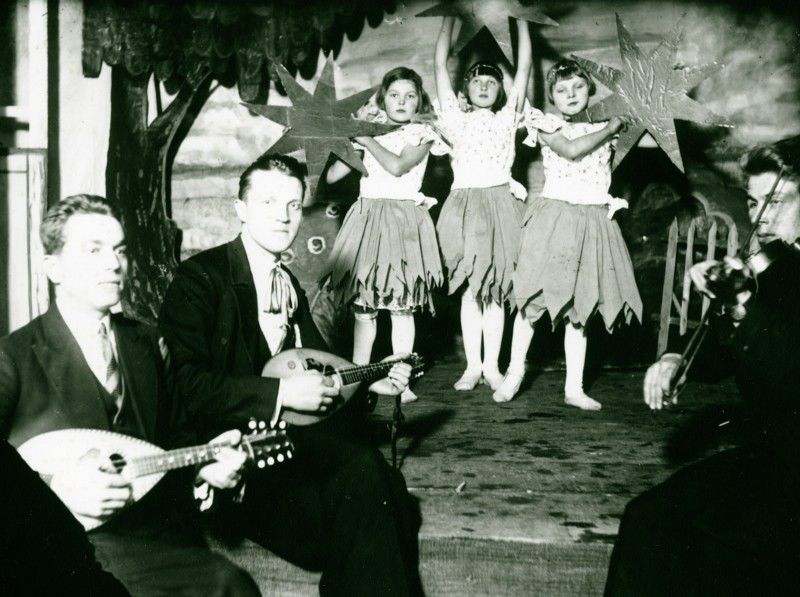 Student ballet performance at a school in Kukutėliai supported by Rytas Society